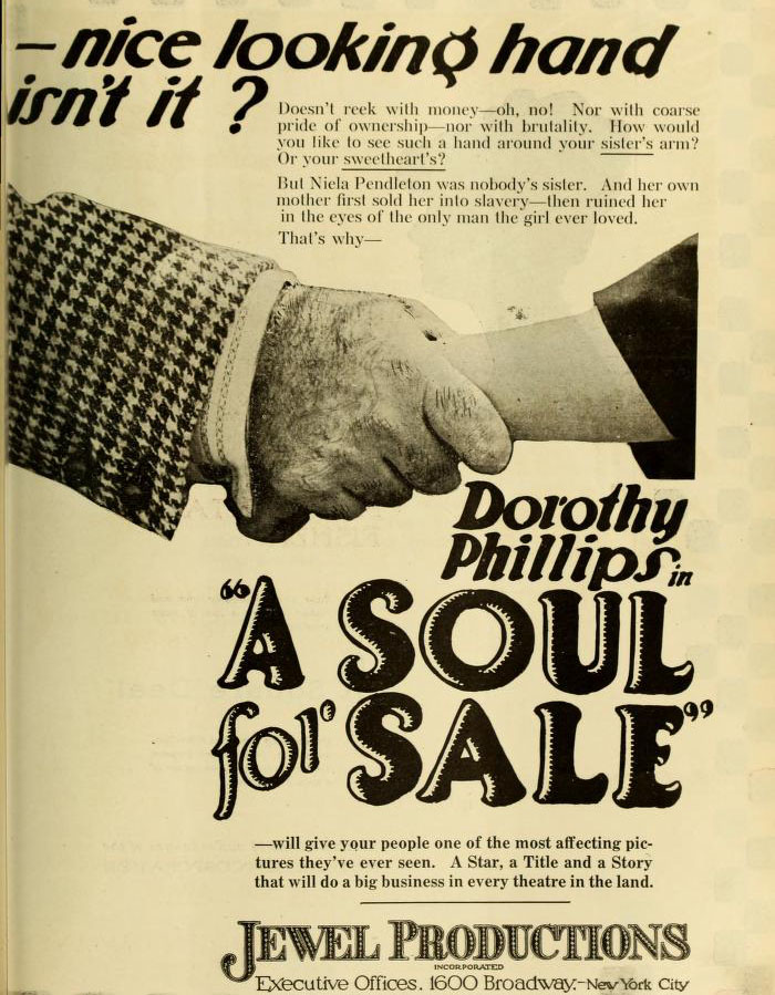 Advertisement in Moving Picture World for the film A Soul for Sale (1918).